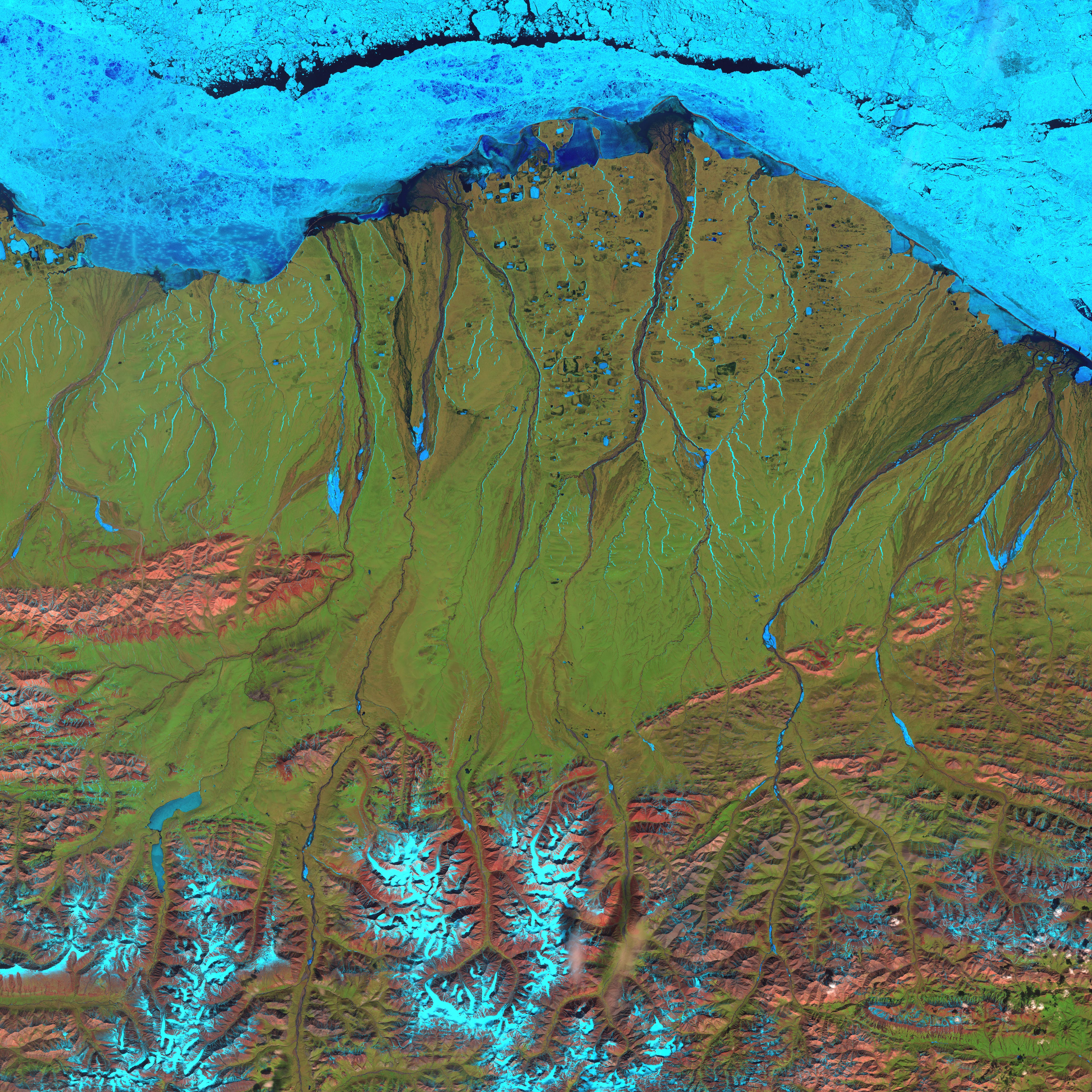 False-color image of the Alaska North Slope. Ice and snow are bright blue, vegetation is green, water is dark blue, bare ground is pink.